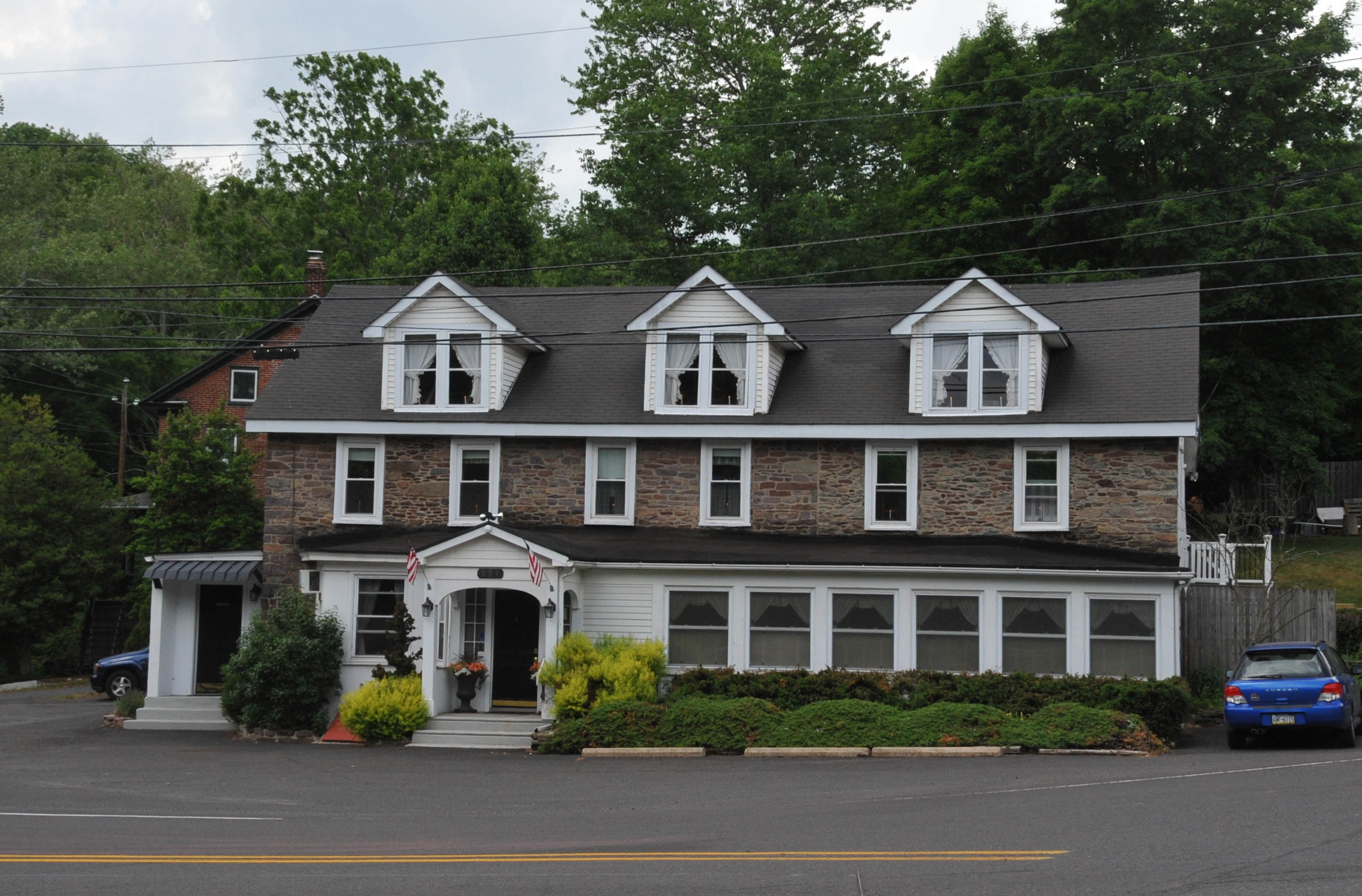 FERNDALE INN; AN INN HAS BEEN PRESENT SINCE 1830 ALONGSIDE GALLOWS HILL CREEK ON THE MAIN ROAD BETWEEN PHILADELPHIA AND EASTON – NOW ROUTE 611